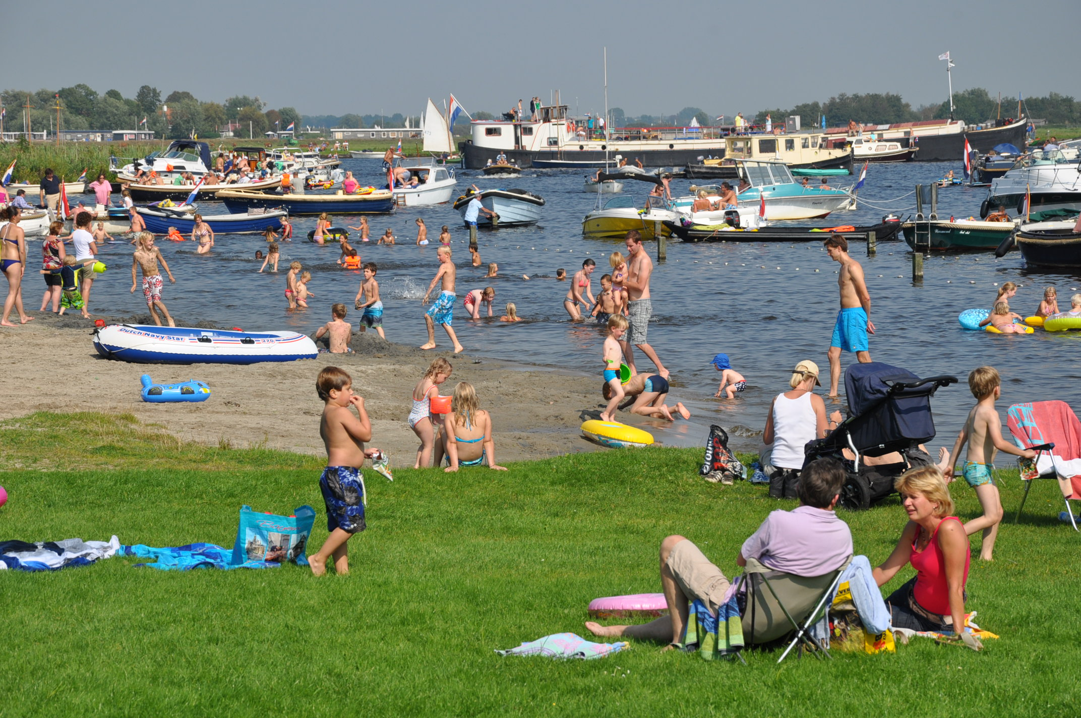 Beach with local tourists on the island Koudenhoorn on Lake 't Joppe -one of the so-called "Kaag Lakes"- near Leiden (Netherlands).